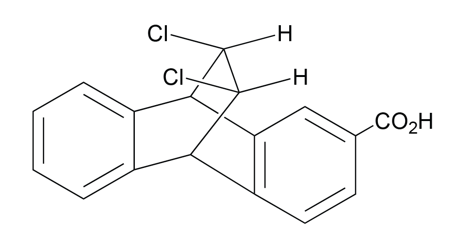 dichloroethano-bridged anthroic acid with chlorines pointed away from carboxylic acid group